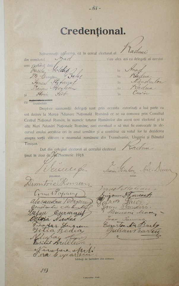 Mandate of the Romanian politician Vasile Goldiș, deputy in the Great National Assembly from Alba Iulia - Romania, 1918Română: Credenționalul lui Vasile Goldiș, deputat în Marea Adunare Națională de la Alba Iulia, 1918